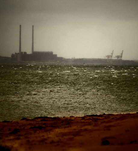 Moneypoint Powerstation in County Clare as seen across the mouth of the Shannon from Beal, Count Limerick. The chimneys are the tallest free-standing structures in the Republic of Ireland. The photo needed serious work to pick out the details as it was so far away it was practically invisible through the haze. This, combined with the usual vignetting from my Minolta 70-210mm makes the photo a bit dark but then as Ireland's only coal power plant it always has had a bit of a sinister feel.